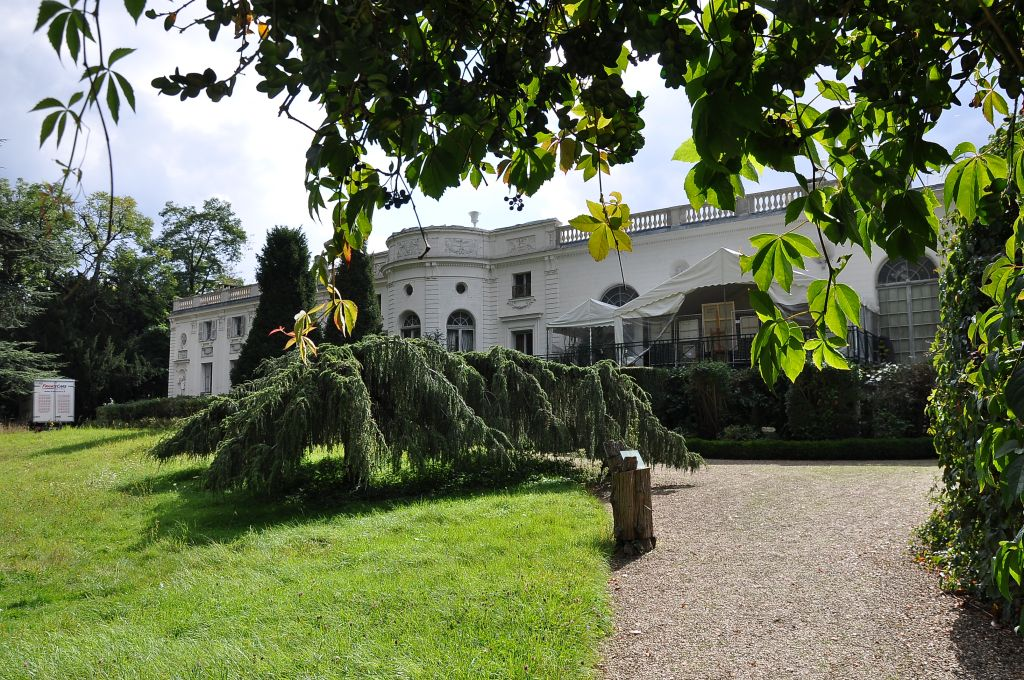 The Château de la Petite Malmaison of Napoleon and Josephine Bonaparte in Rueil-Malmaison at France